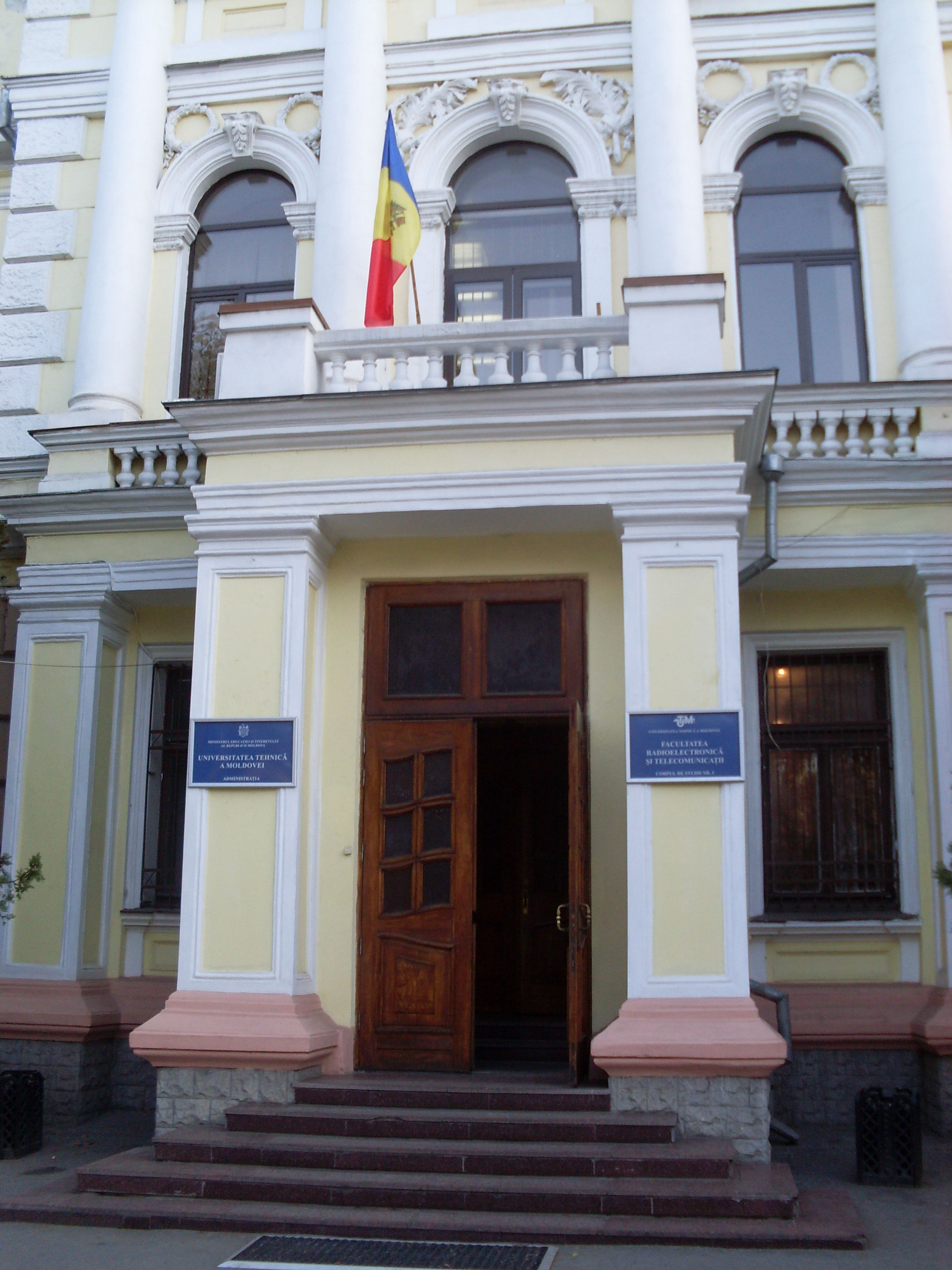 Main entrance in the Technical University of Moldova